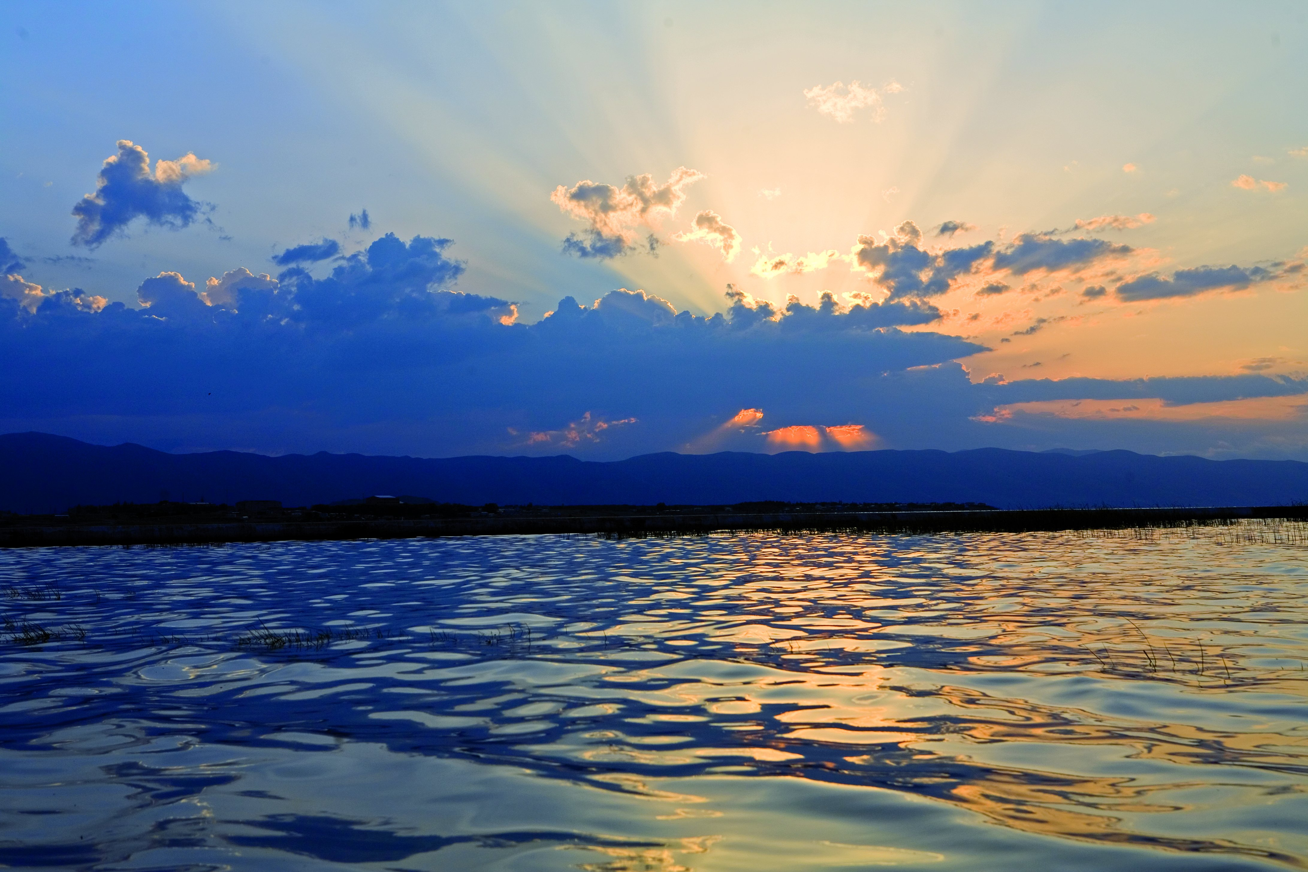 The Aygerlich lake